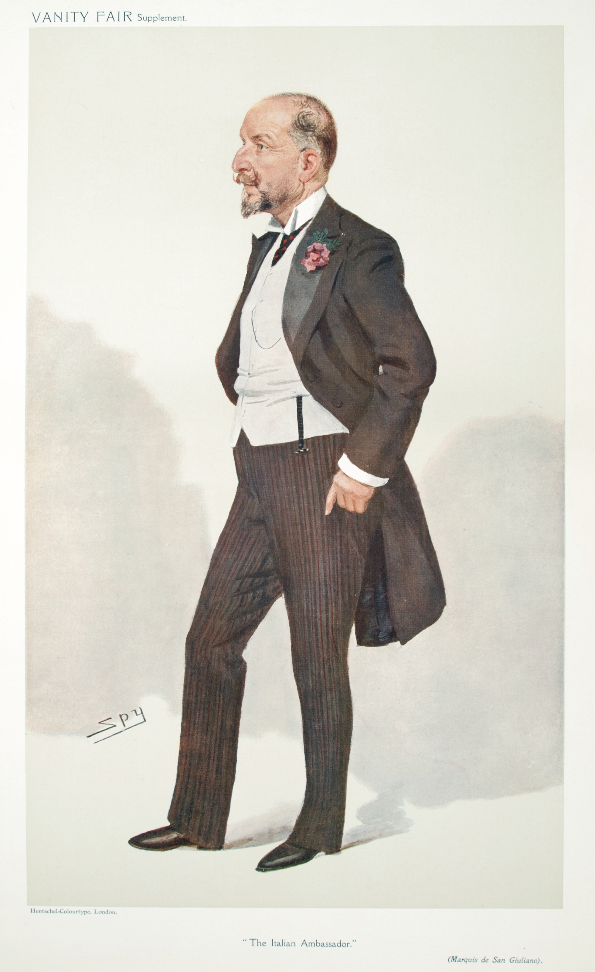 Caricature of Antonino Paternò-Castello, marchese di San Giuliano, Italian ambassador to the United Kingdom. He also served as Italian Foreign Minister.